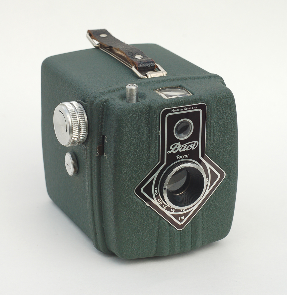 The Daci Royal is a metal box camera with a focusing lens, made in Germany in 1950. Also came in red, grey, and black.